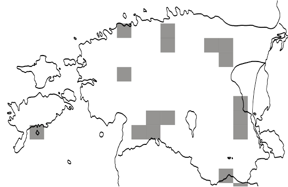 Nephroma laevigatum. Distribution in Estonia 2011.